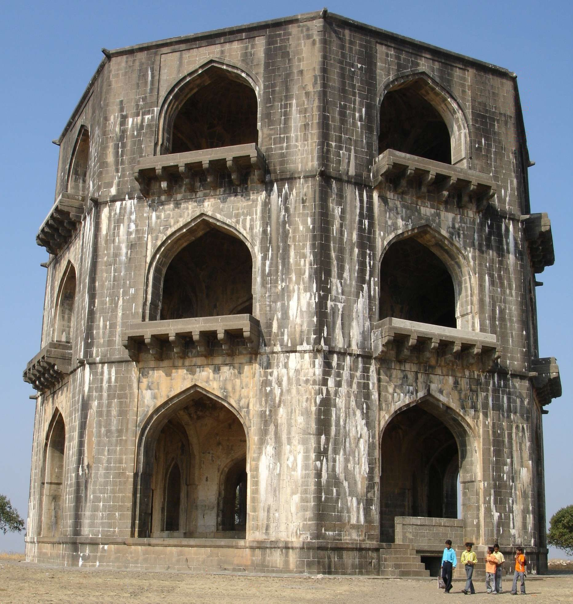 Mausoleum of Salabat Khan, minister of the Sultanate of Ahmadnagar in the 16th century (Ahmadnagar, Maharashtra, India)